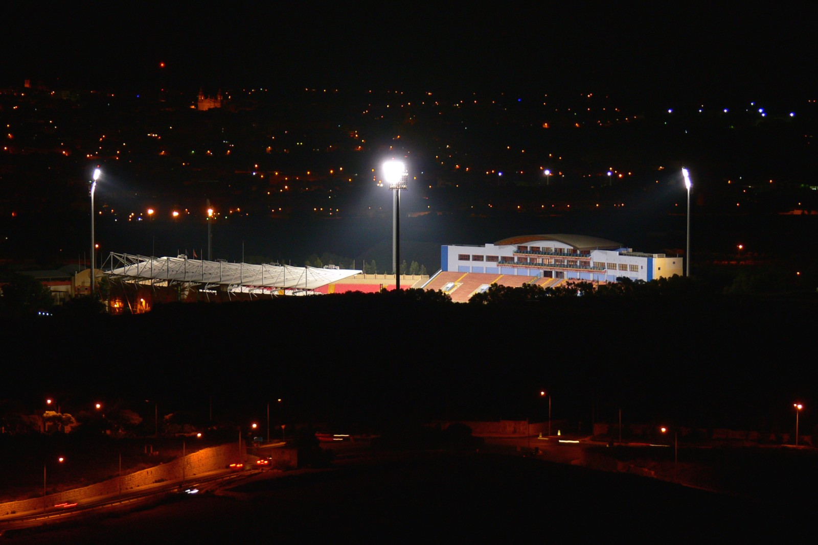 The Malta national stadium (Ta' Qali), seen from Mdina